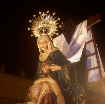 SAINT WEEK